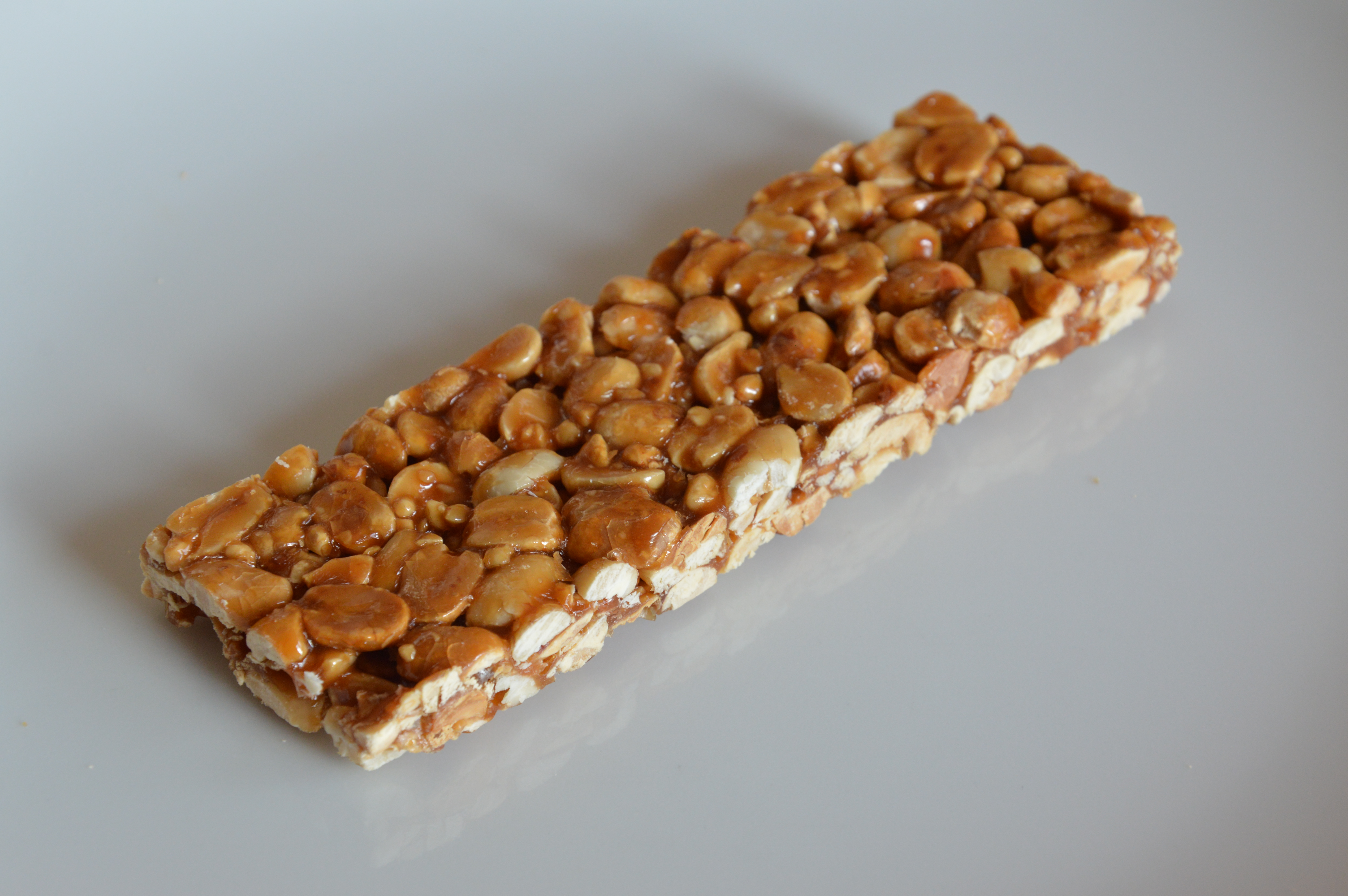 A "Mr. Tom" bar, made of caramel and peanuts.